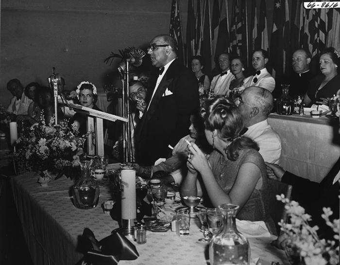 Liaquat Ali Khan, Prime Minister of Pakistan, speaking in New Orleans, 1950. Prime Minister Ali Khan, of Pakistan, speaks at a New Orleans Citizens' Committee dinner. From photograph album, "Visit of his Excellency Liaquat Ali Khan, Prime Minister of Pakistan, to the United States of America, May 3 to May 26, 1950."